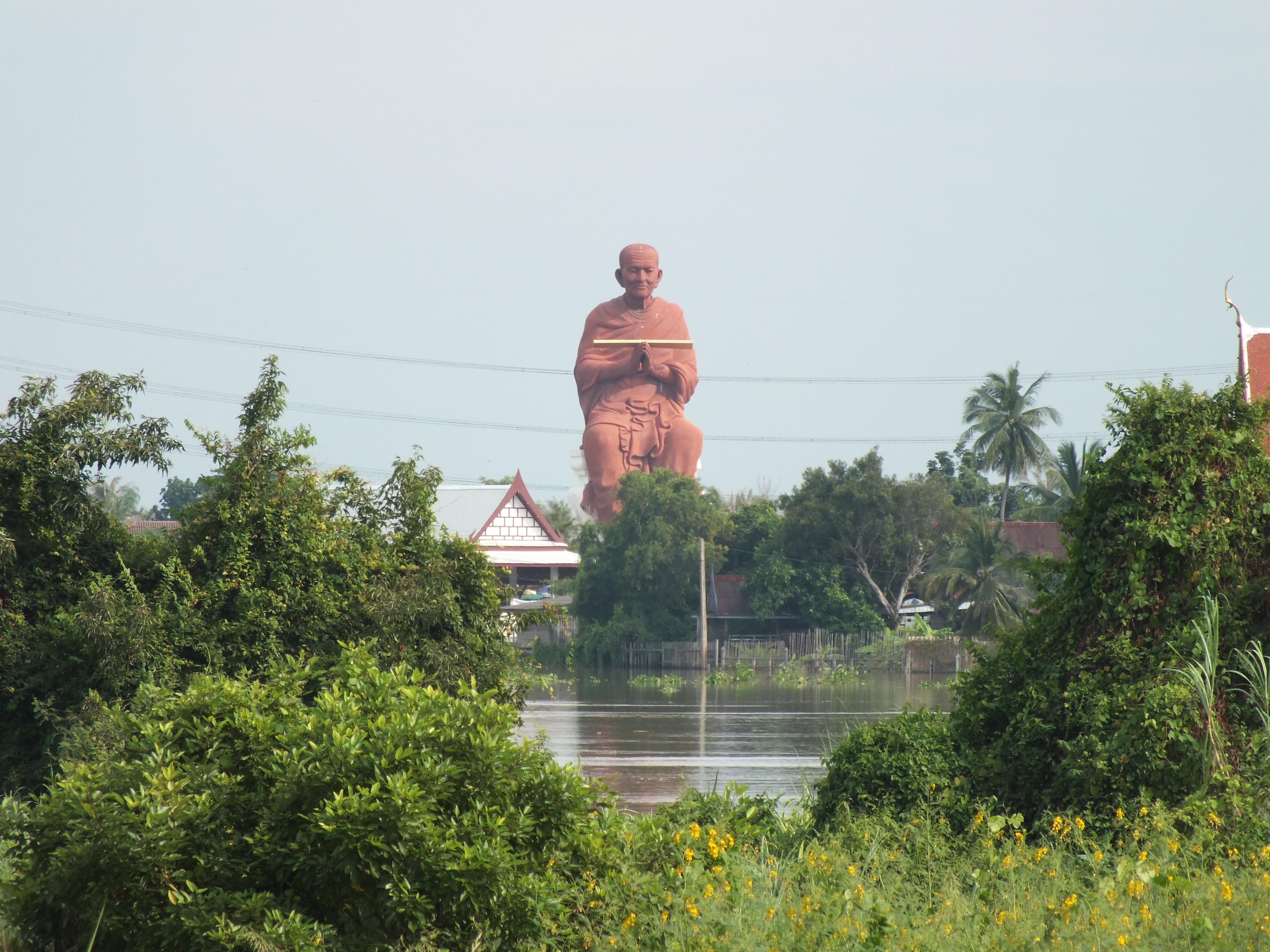 Somdej Toh, known formally as Phra Buddhacharn Toh Phomarangsi, was one of the most famous Buddhist monks during Thailand's Rattanakosin Period